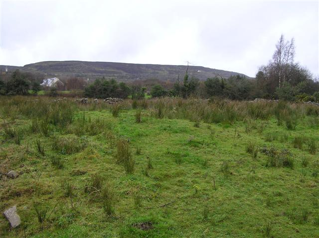 Corranearly Townland Looking north-west